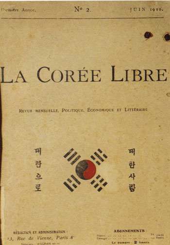 La Coree libre No.2